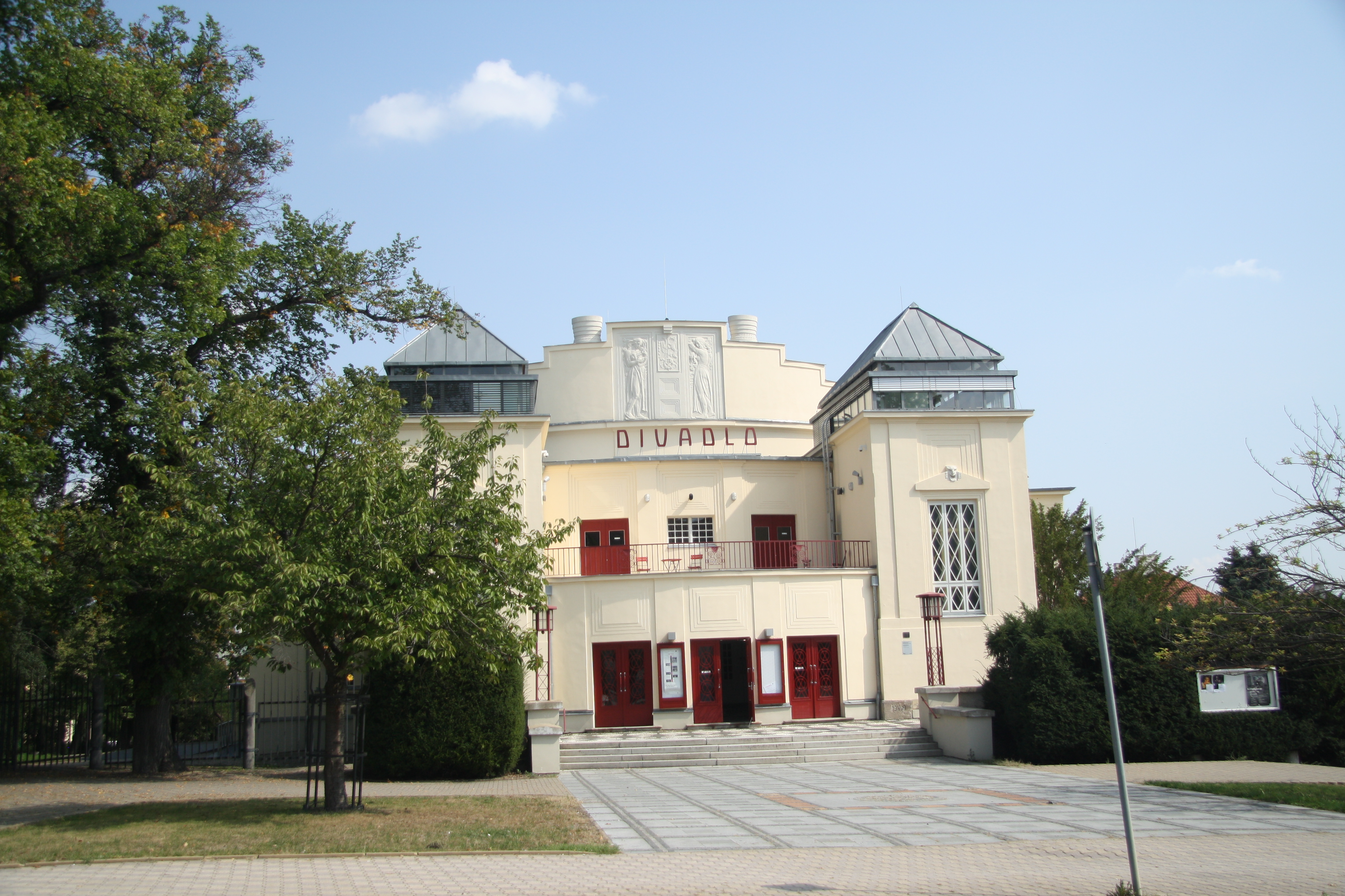 Overview of Městské divadlo Kladno at J. Hory street in Kladno, Kladno District.